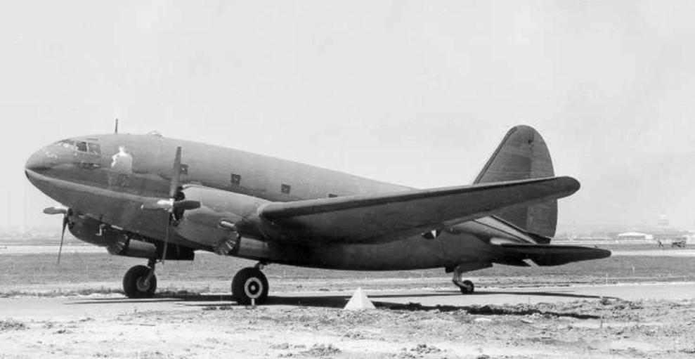 A U.S. Coast Guard Curtiss R5C-1 Commando in 1943, probably at Naval Air Station Anacostia, Dashington D.C. (USA). The U.S. Coast Guard acquired 10 R5C-1 (C-46A) during the second half of 1943. They were returned to the U.S. Navy and U.S. Air Force between April 1947 and December 1950.